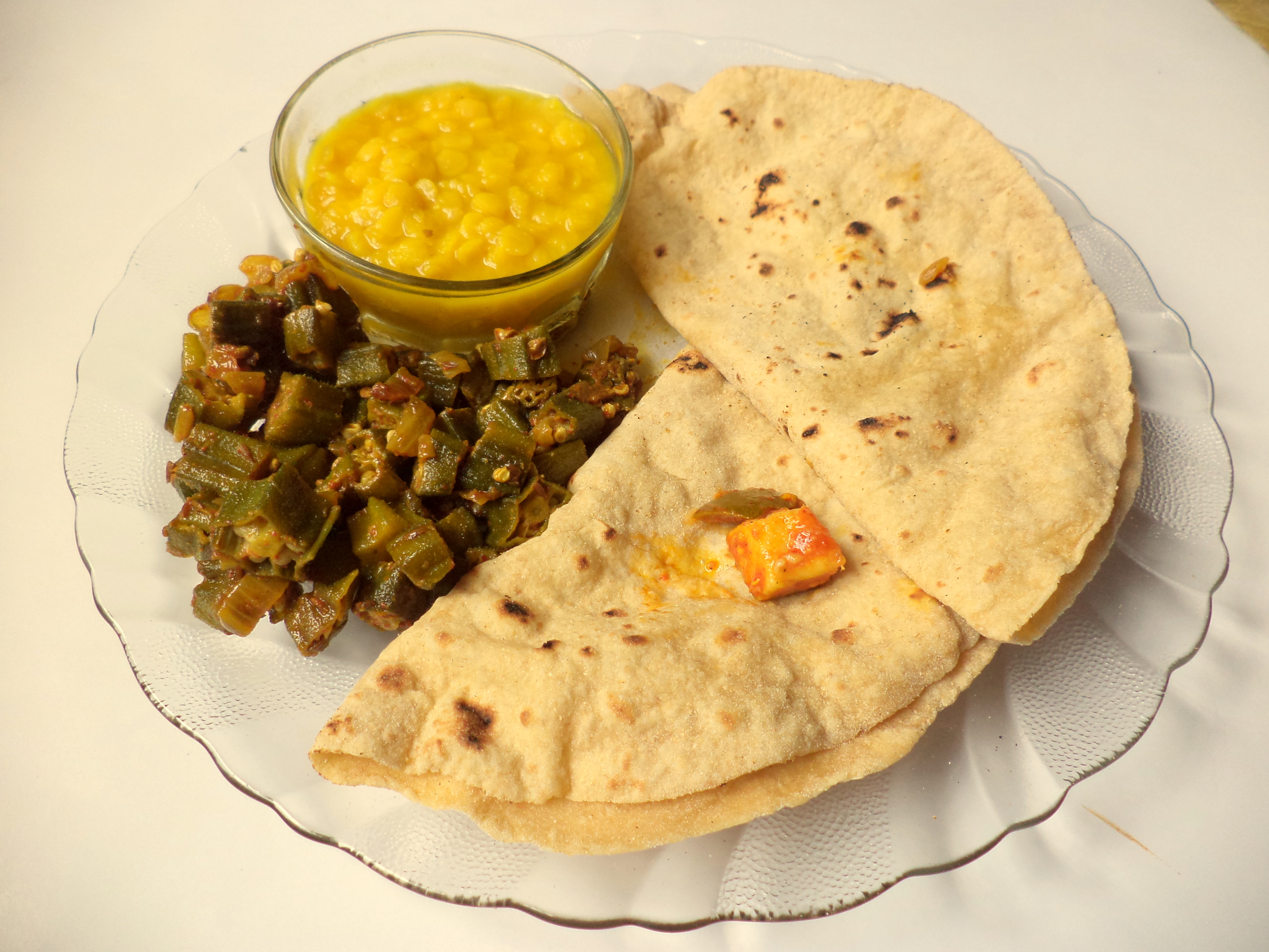 Spicy bhindi, hot arhar daal and rotis with a bit of mango pickle